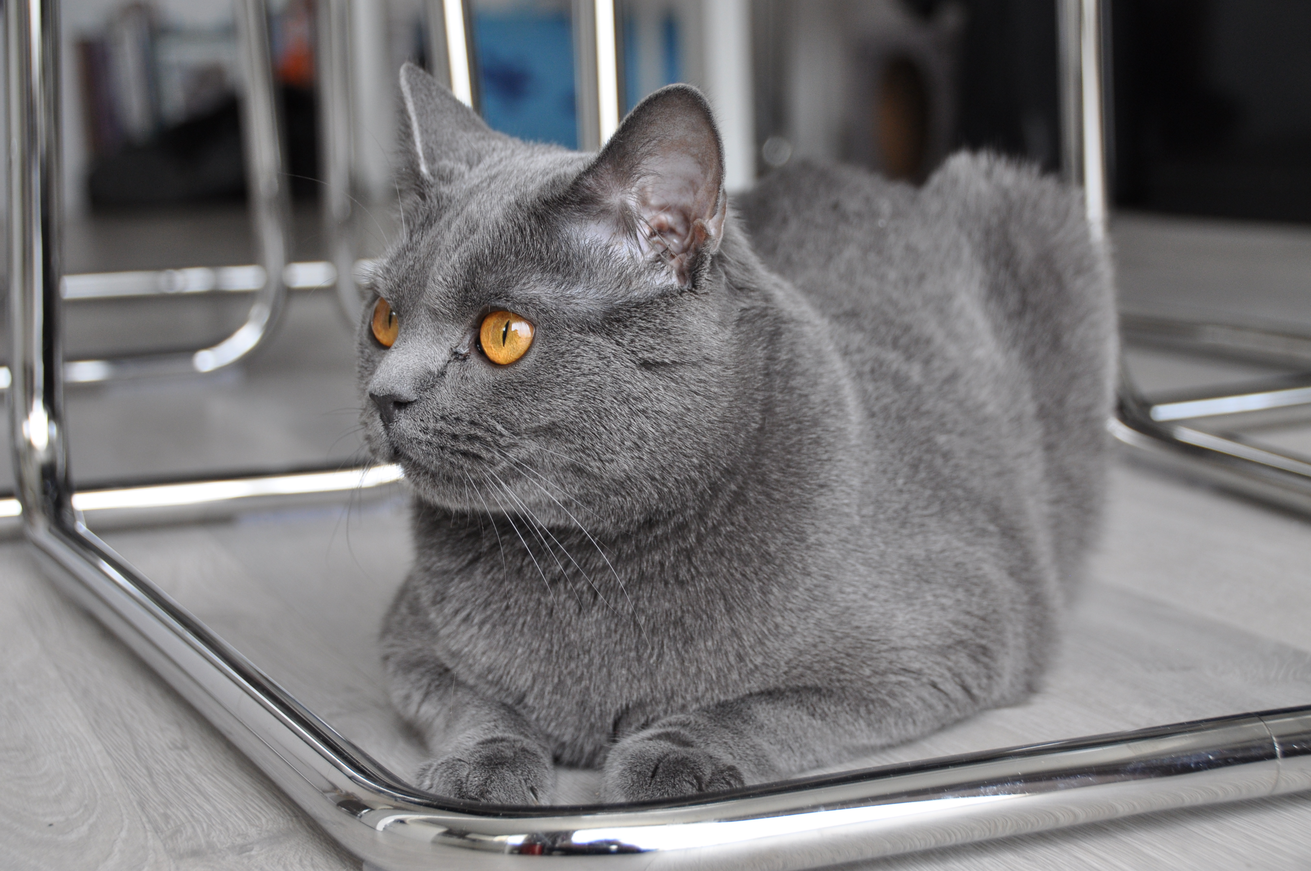 Chartreux adult cat